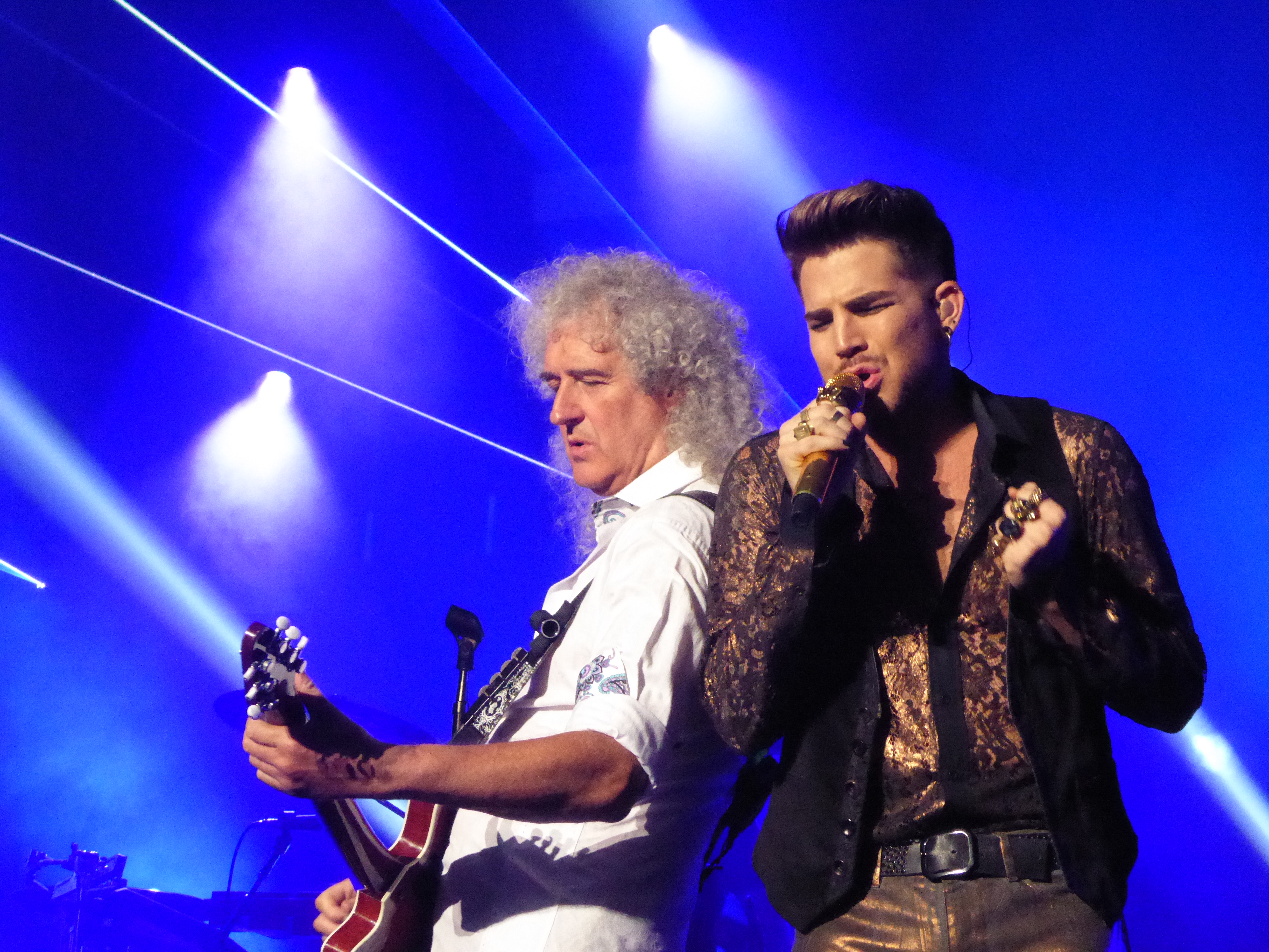 Adam Lambert performing with Queen at Las Vegas on July 5,2014